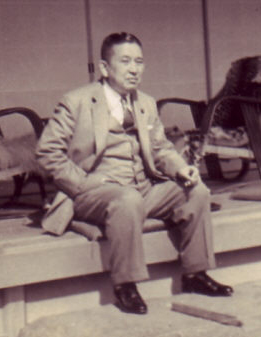 Ichirō Kōno (1898–1965)